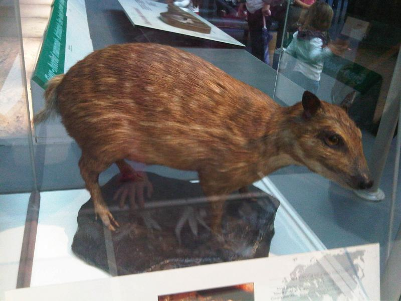 Taxidermied water chevrotain (Hyemoschus aquaticus), also known as the fanged deer at the Natural History Museum in London, England.